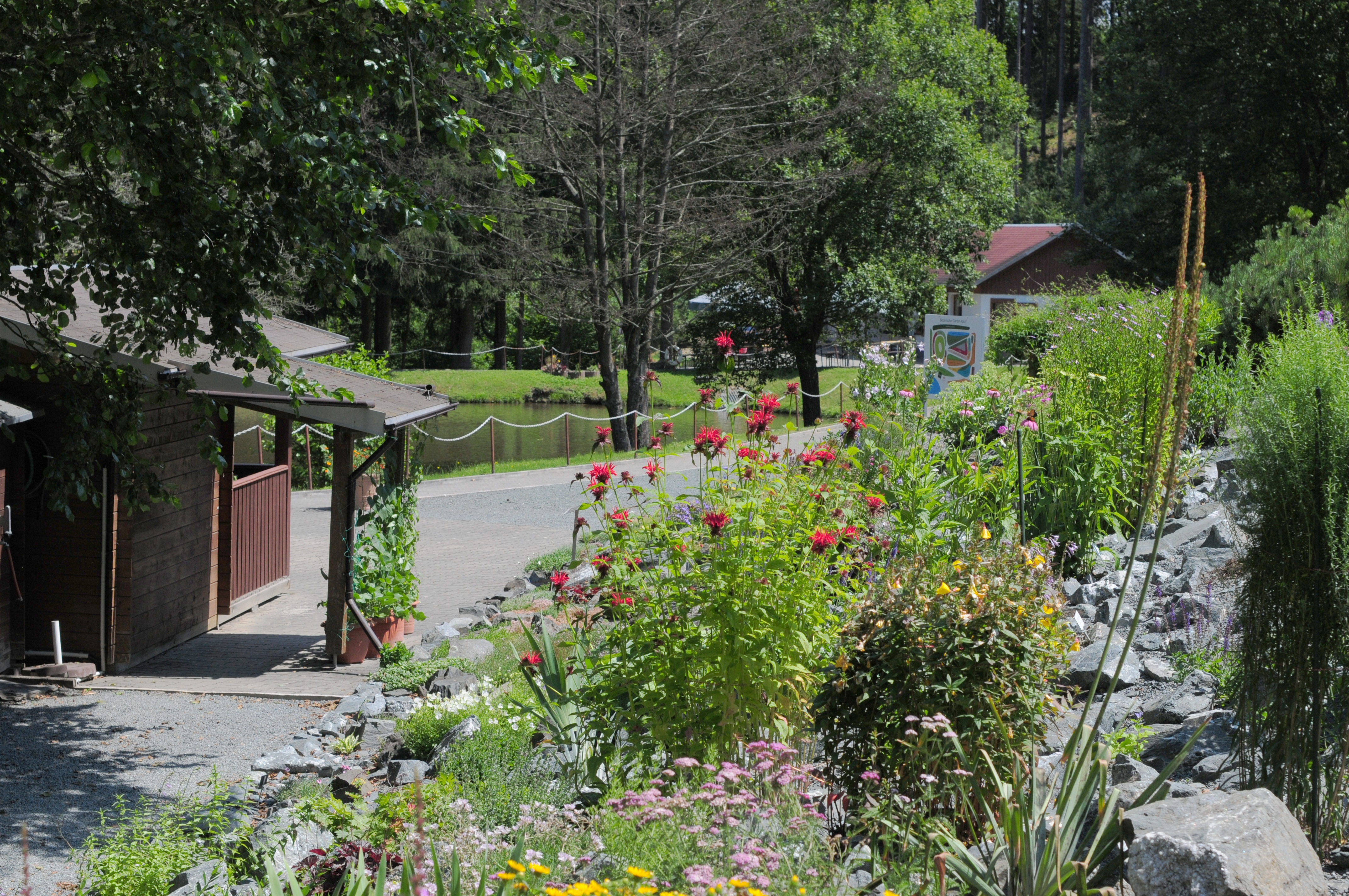 Adorf/Vogtland, Botanical garden (district Vogtlandkreis, Free State of Saxony, Germany)